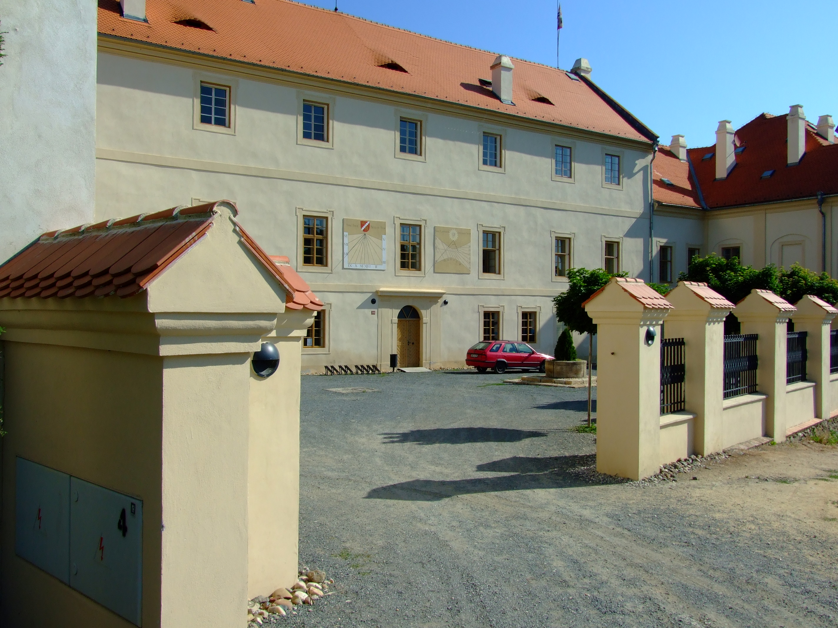 Courtyard of Nižbor castle, Central Bohemian region, CZhelp